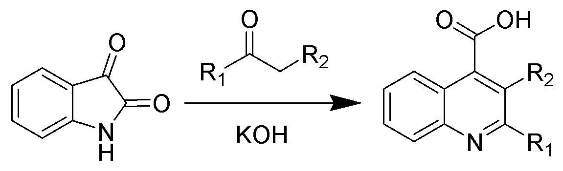 Reaction scheme of the Pfitzinger reaction.